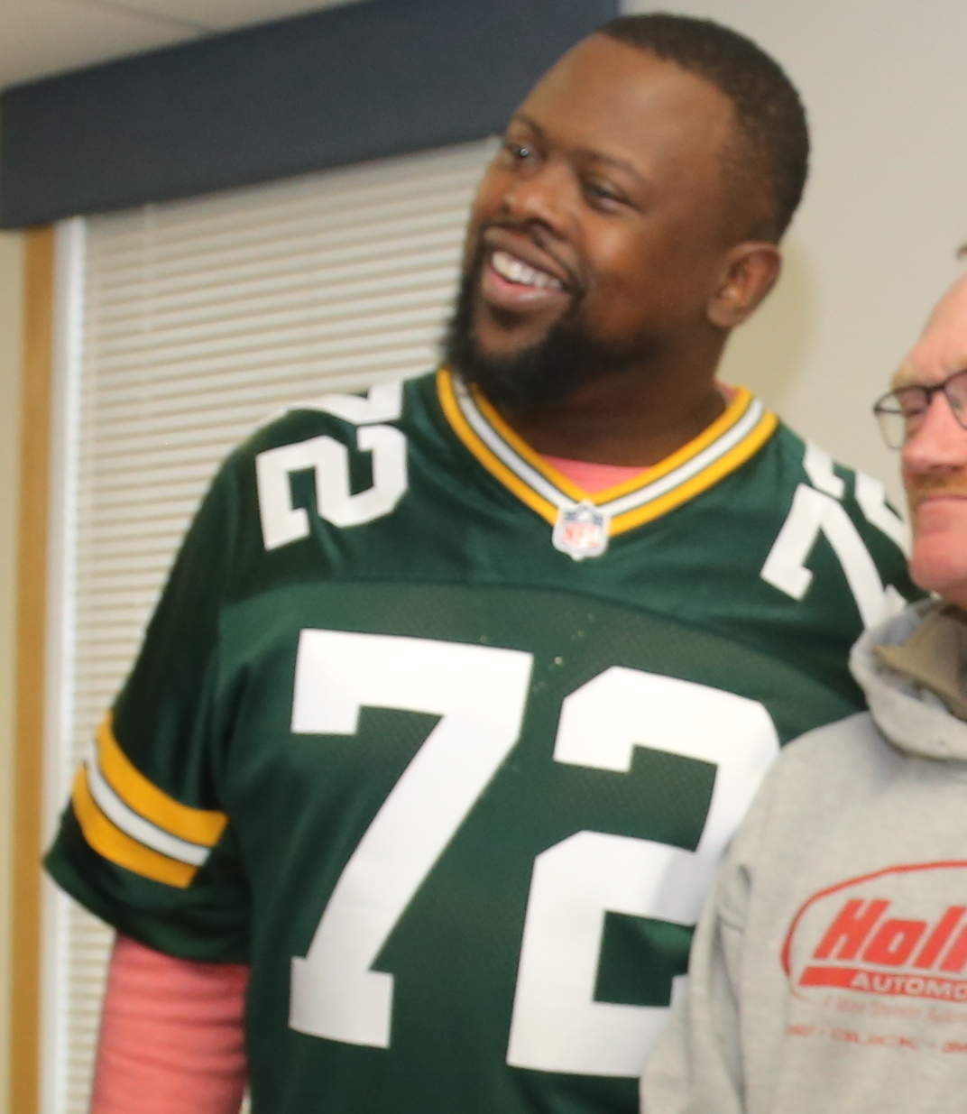 Members of the Green Bay Packers Tailgate Tour meet with Soldiers at a dining facility April 10, 2019, at Fort McCoy, Wis. Packers President/CEO Mark Murphy and six Packers alumni were among the people on the 14th annual Packers Tailgate Tour who visited Fort McCoy. Packers alumni on the tour were Earl Dotson, Nick Barnett, Ryan Grant, Aaron Kampman, Scott Wells, and Bernardo Harris. All of the tour members mingled with Soldiers, signed autographs, and posed for photos. Tour members also visited Fort McCoy’s Range 2 to learn about operations for Operation Cold Steel III and Task Force Fortnite. (U.S. Army Photo by Scott T. Sturkol)